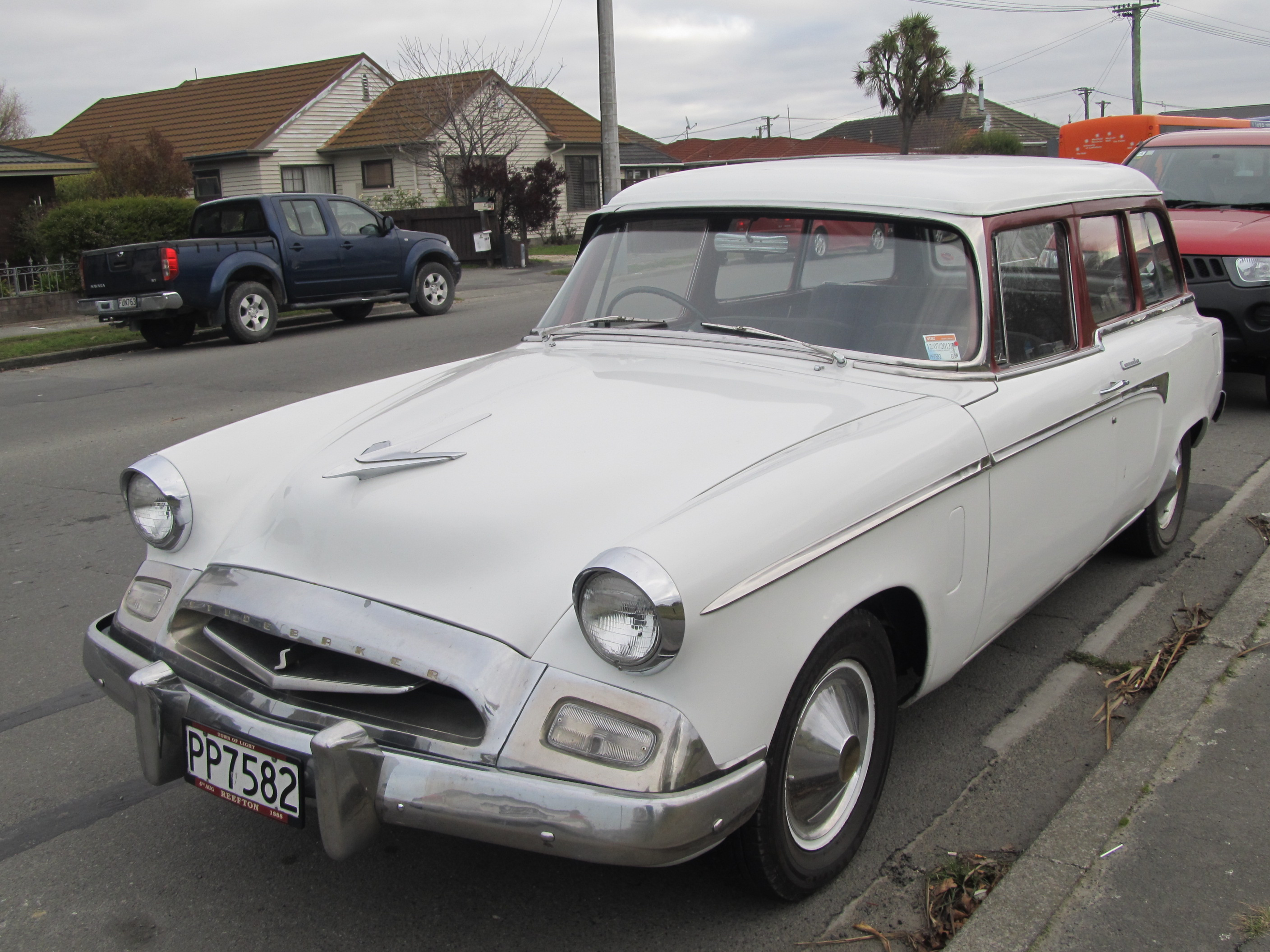 PP7582 Certainly an interesting vehicle, and one which was photographed by fellow Christchurch Flickr contact Stephen Trinder just over two hours after I caught it this afternoon! I never even knew of this model's existence until today, and what a nice surprise it was!